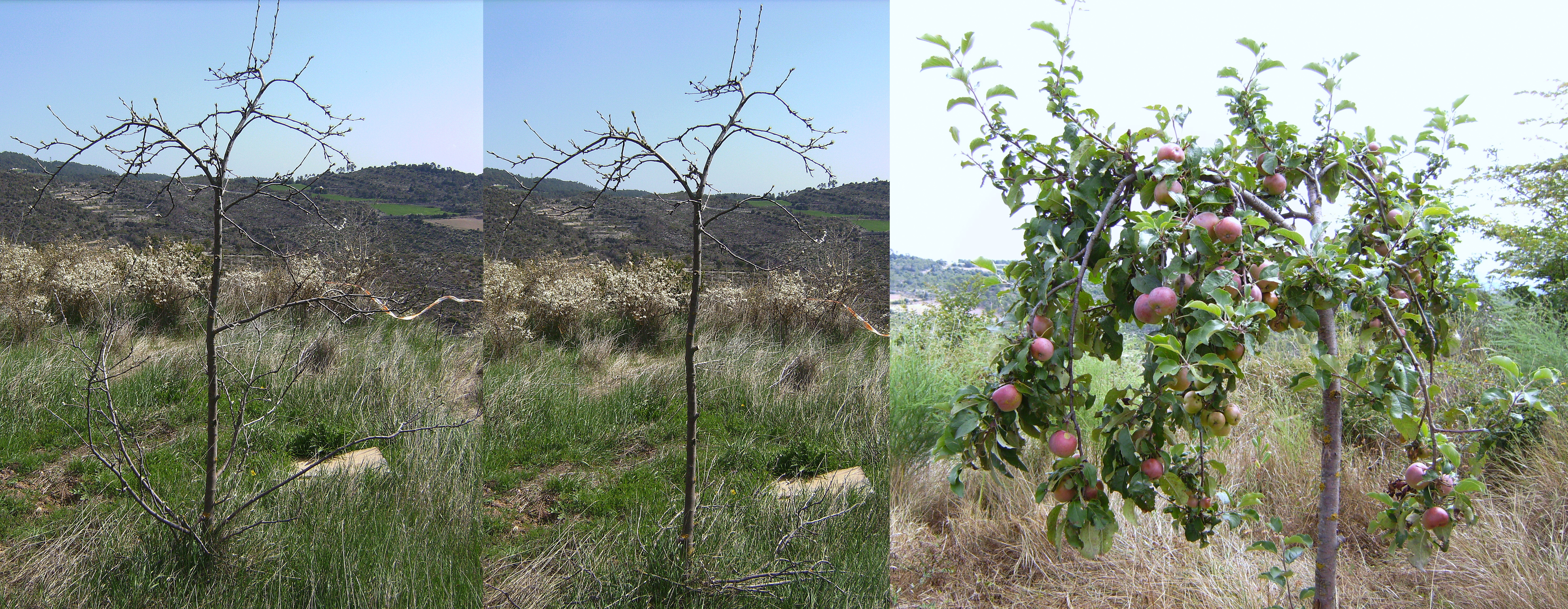 Pruninng of one apple tree in april 2010 and the same tree in august, Castelltallat, Catalonia